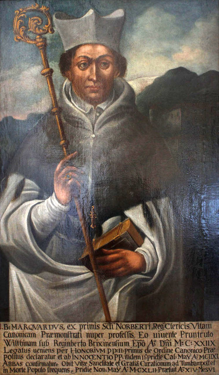 Marquard, first abbot of Wilten monastery (ca. 1128/1138 - 1142)